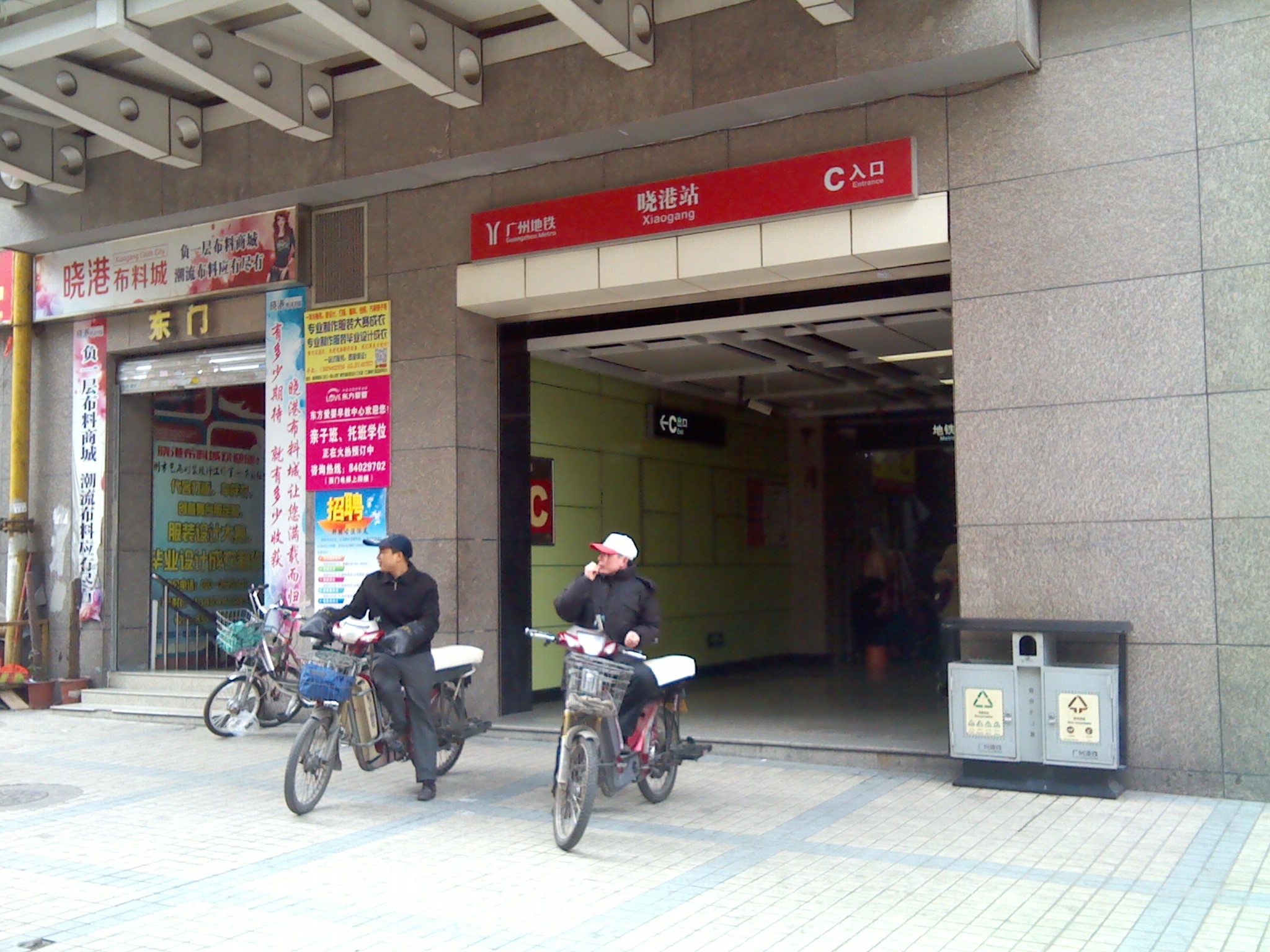 广州地铁晓港站C出入口